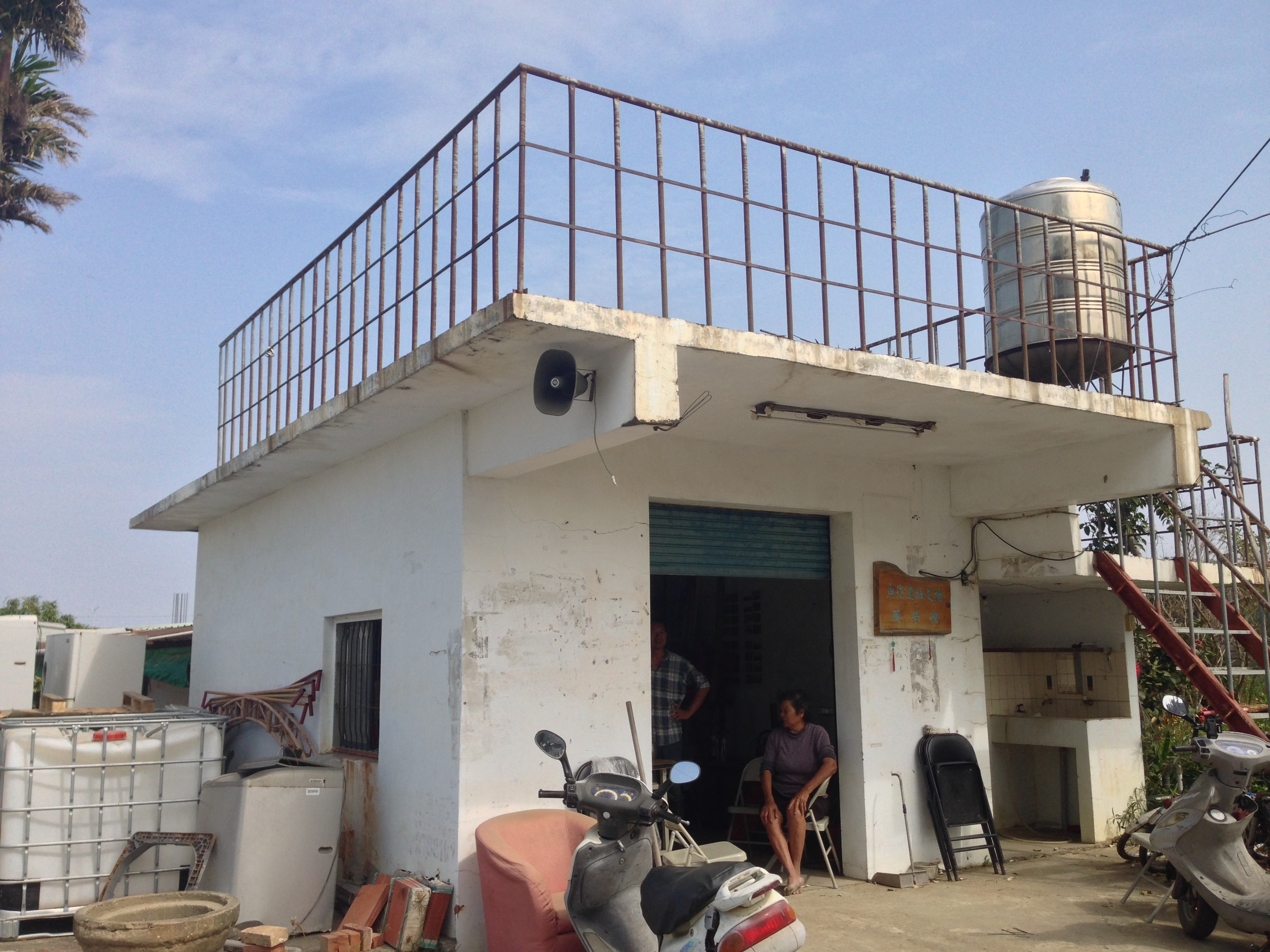 Yuyu Site Vision Pavilion